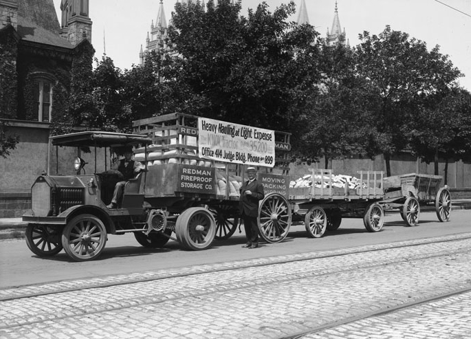 Redman Fireproof Storage Company, Knox Tractor and Load, Salt Lake City, Utah, 1915. Image shows two men standing with their classic Redman Fireproof Storage Company truck, outside the Temple Square wall on South Temple. Note chain drive, common in this era. The Redman Van and Storage Company changed its name after its storehouse burned down in 1907. Commercial photo for advertisement, published circa 1915.